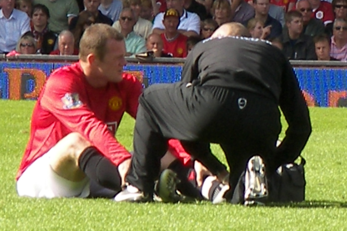 Wayne Rooney breaking foot against Reading, 12/08/07